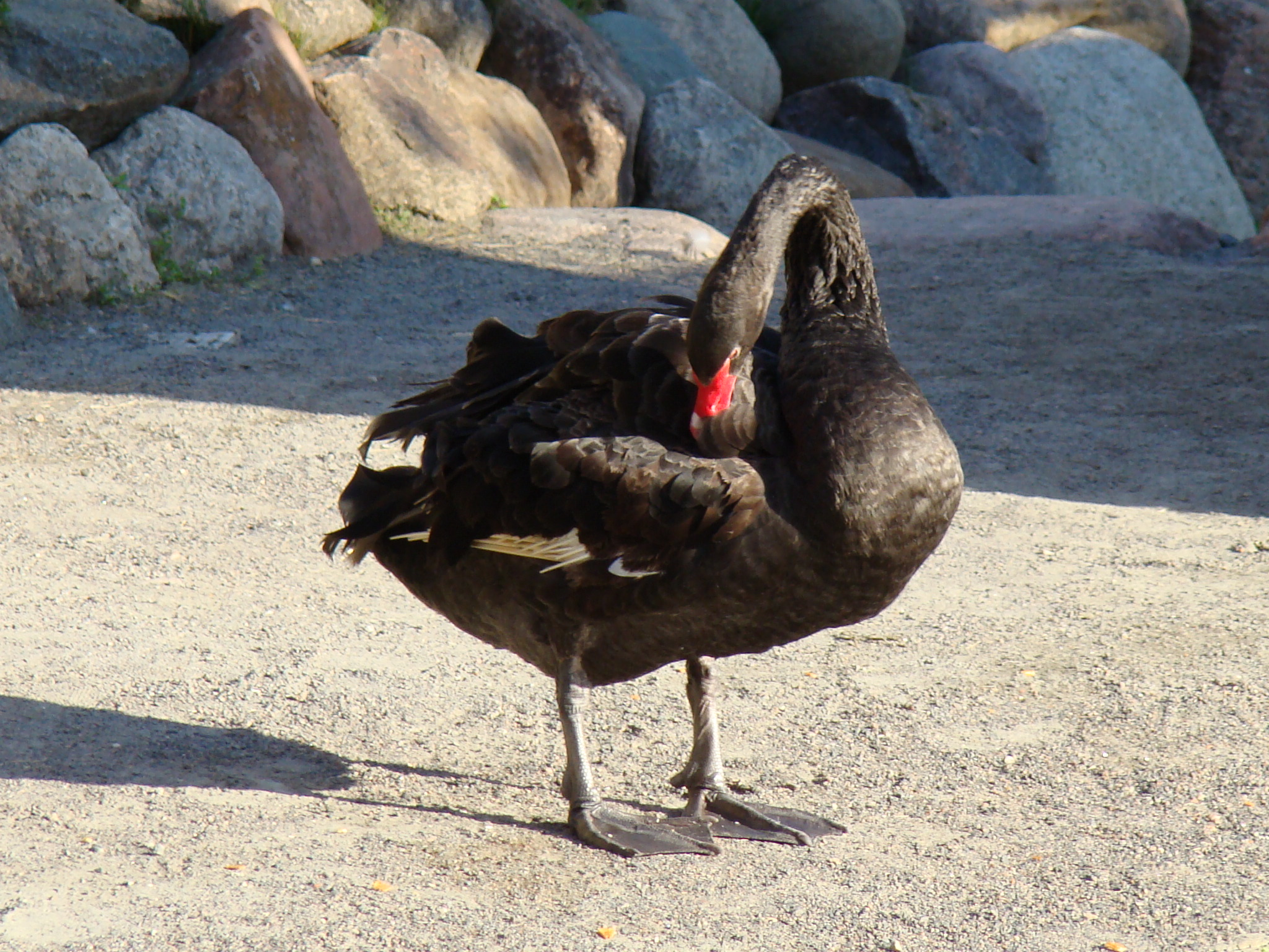 Photo of the Black Swan (Cygnus atratus) in in Belmontas, Vilnius, Lithuania.